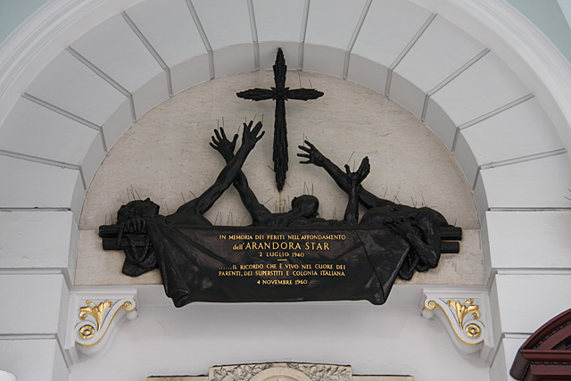 Remembrance for the Drowned This memorial, at the entrance to the Chiesa Italiana di San Pietro, Holborn, London, recalls the sinking of Blue Star Lines Arandora Star by U-47 on 7th July 1940, under the command of Gunther Prien - a highly rated captain of the German U-Boat corps who had successfully entered Scapa Flow and sunk the British Cruiser Royal Oak in 1939. The Arandora Star was carrying civilian German and Italian internees from Liverpool to Canada. Over 800 lives were lost. Subsequently, the British government altered its policy towards internees and held them within the British Isles. There is currently a campaign seeking an apology from the British government for the policy decisions that led to these deaths. For fuller info please see the Blue Star Lines website at and the campaign website at